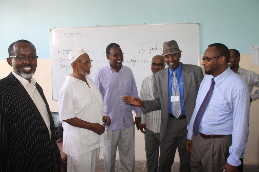 Mr. Ghaleb (the second from the left) with other teaching staff at City University Mogadisho